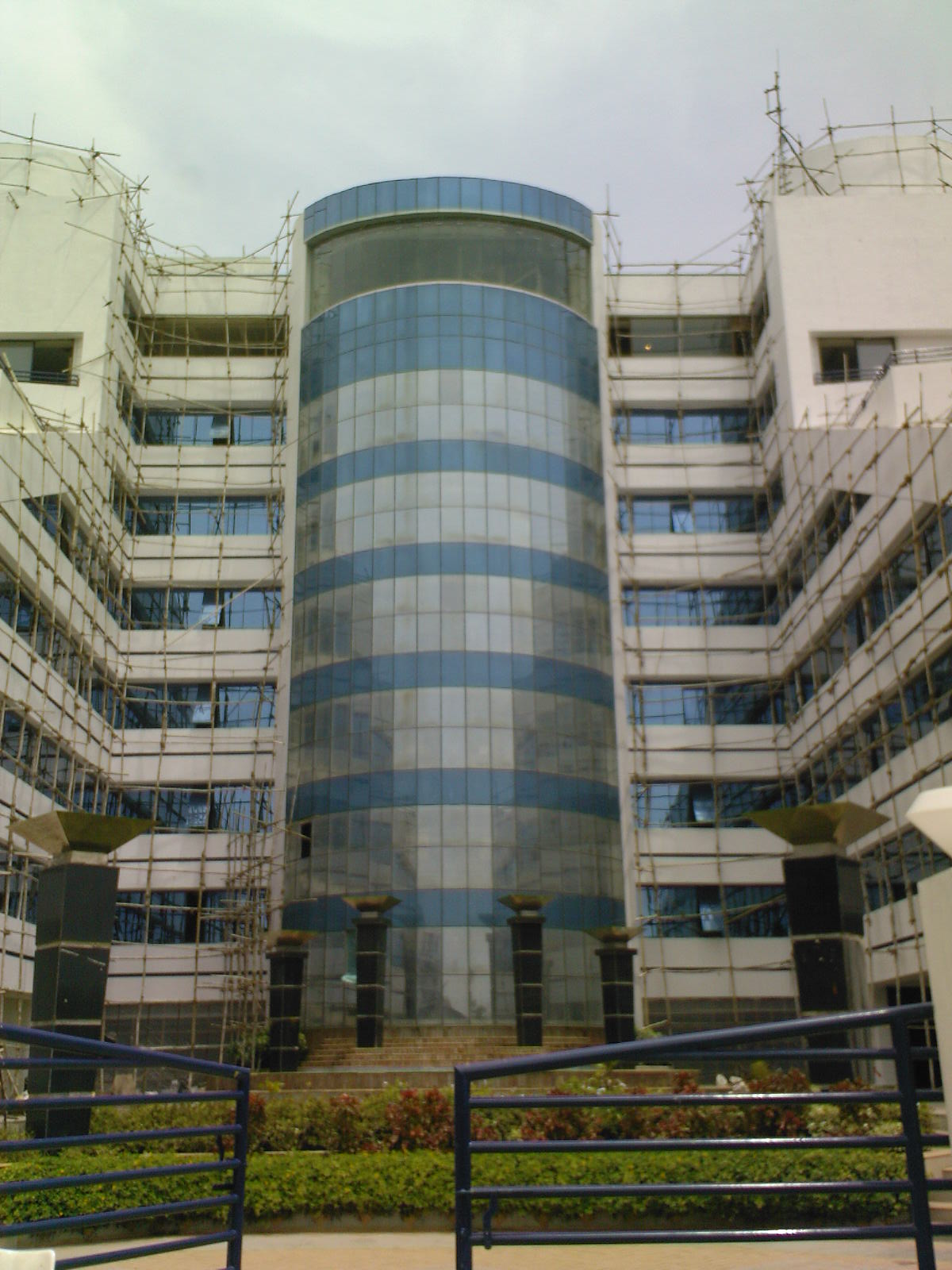 Rajiv Gandhi Institute of Technology, Versova, Mumbai: View from entrance